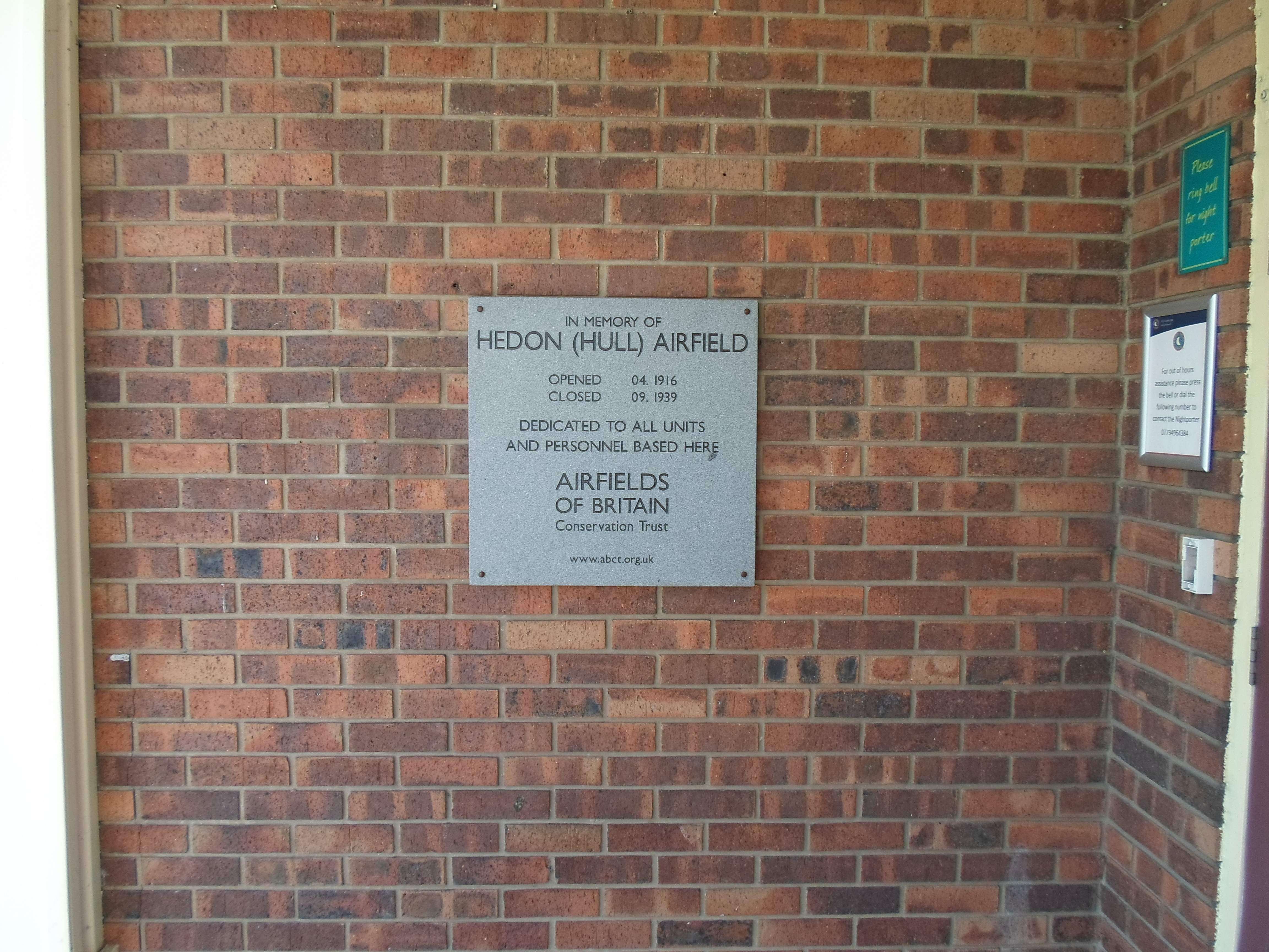 West of Hedon, East Riding of Yorkshire, England.A plaque installed by the Airfields of Britain Conservation Trust (ABCT) remembering the former Hedon Aerodrome site, July 2017.